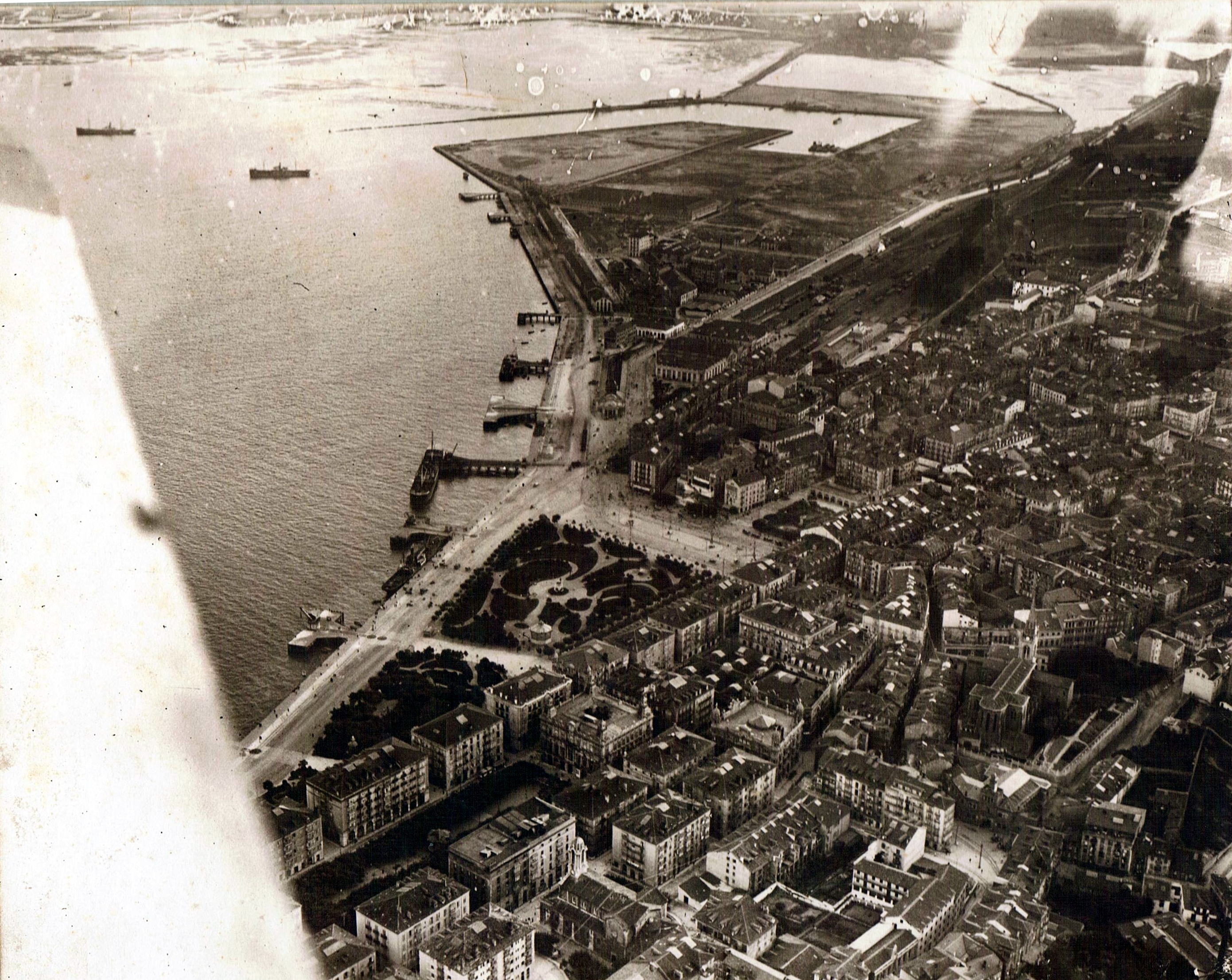 Aerial photograph of the city of Santander (Spain) in 1916.